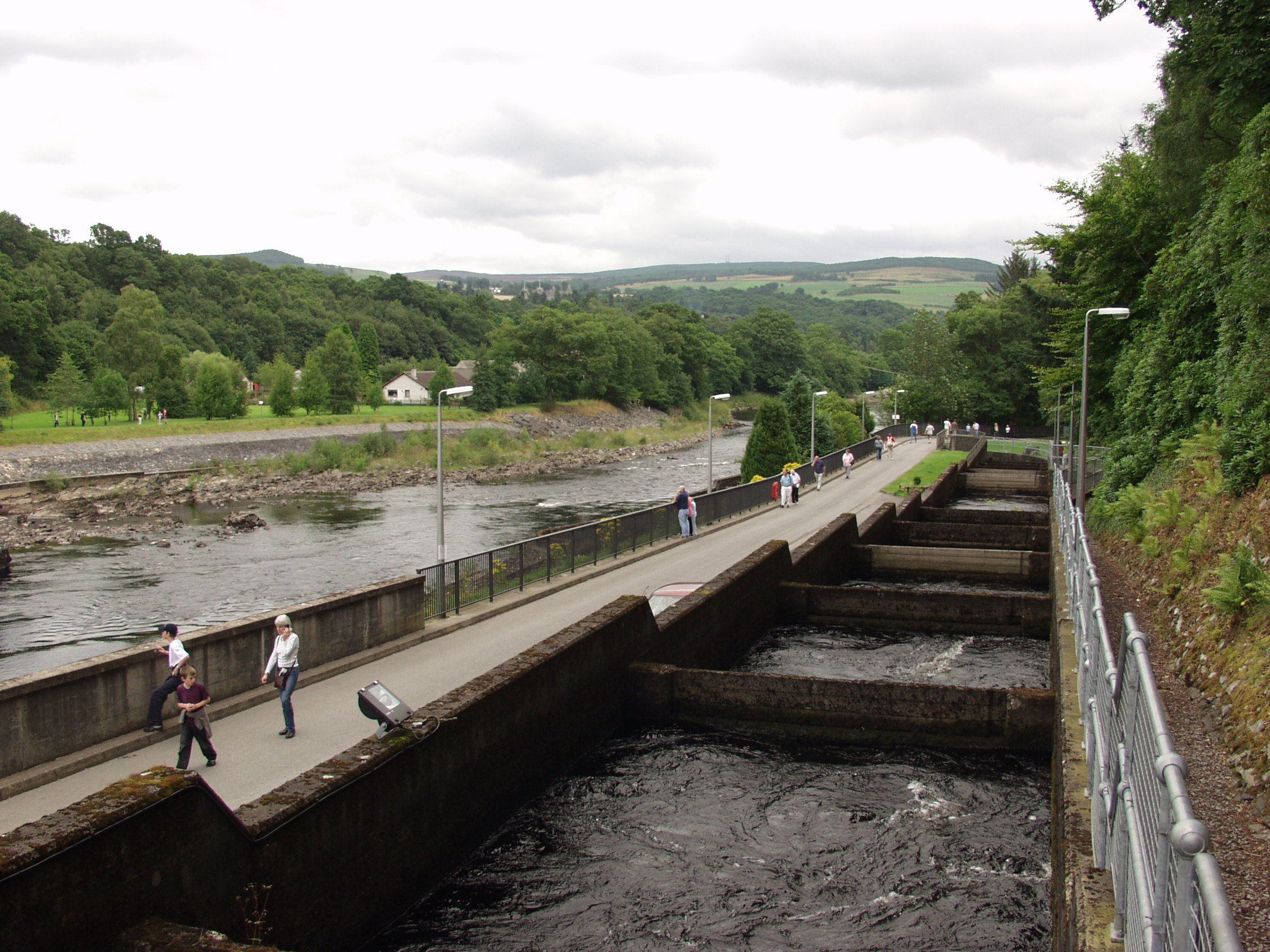 Fish ladder in Pitlochry (Scotland), 311 m long